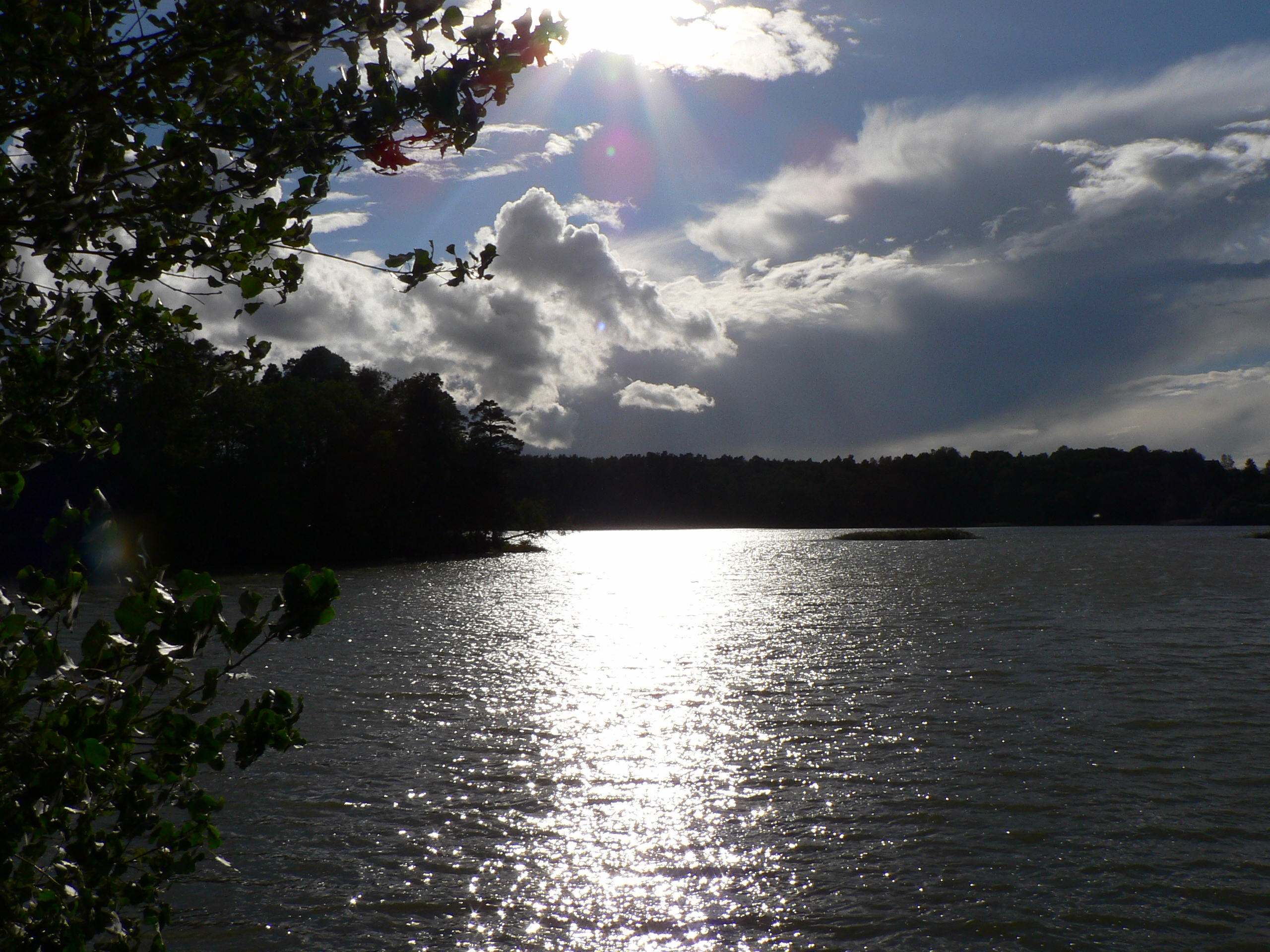 Lentvaris Lake, Lithuania